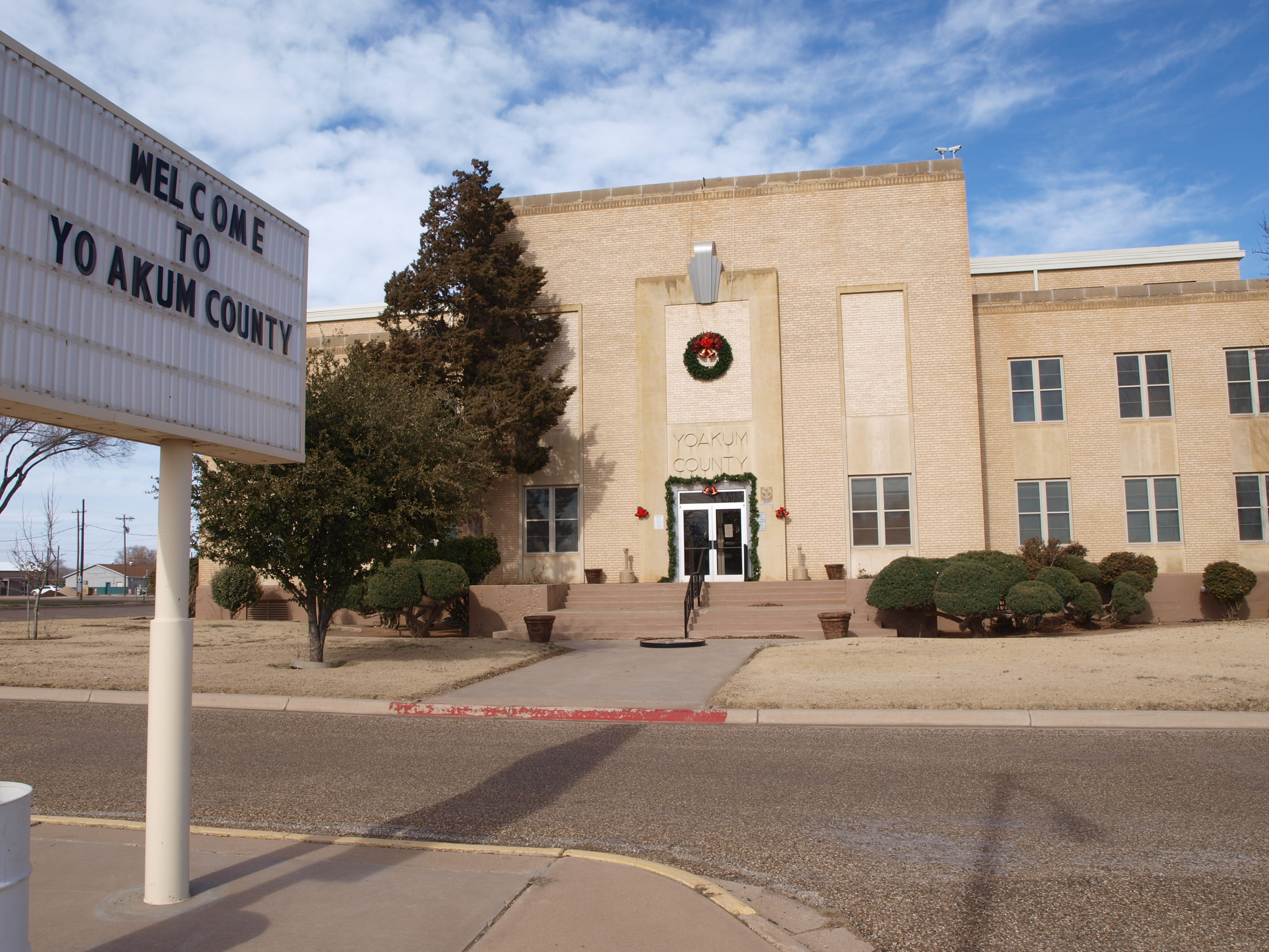 The courthouse, Yoakum Co, Texas 2009